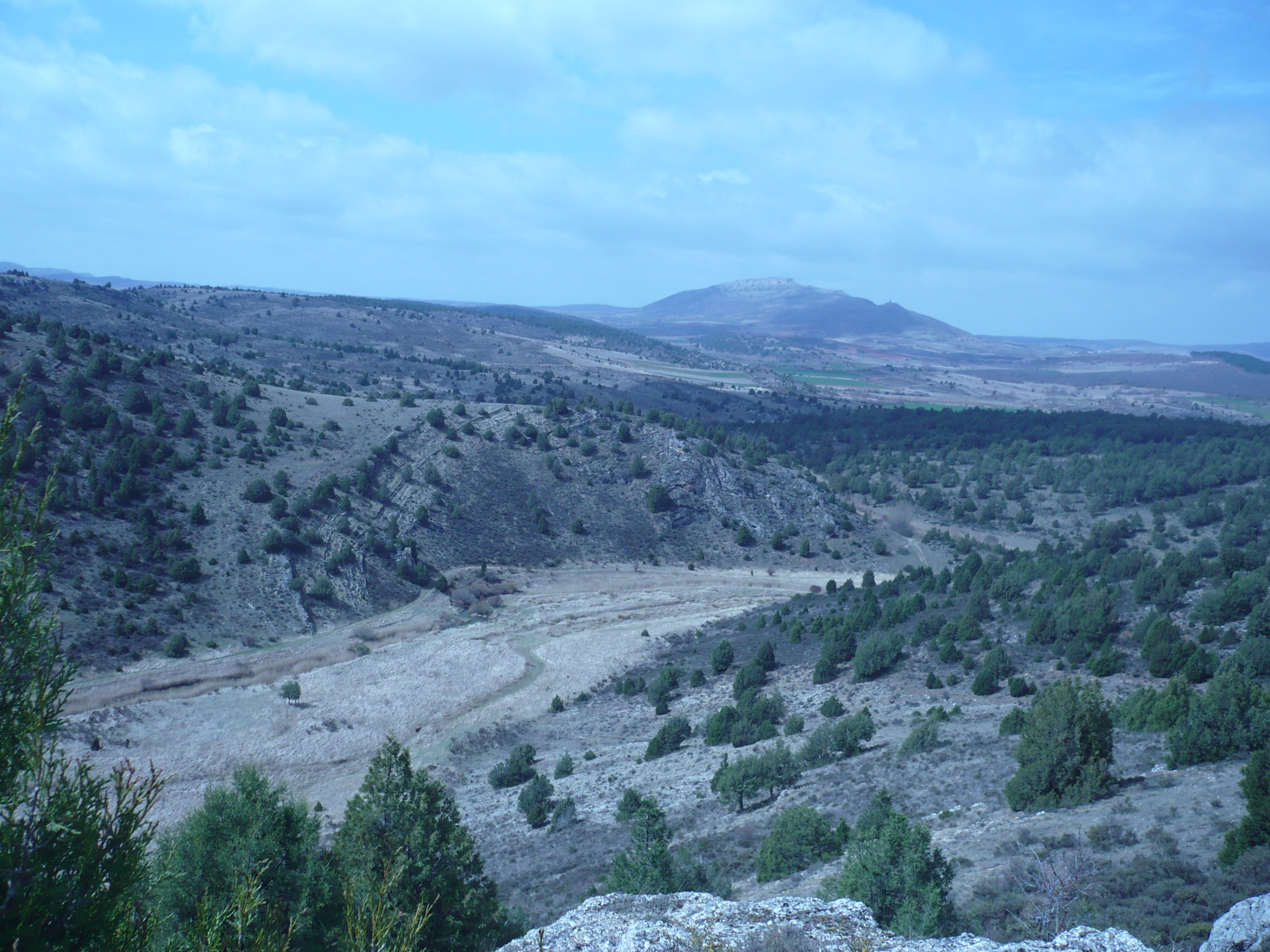 Water gap cutting the nucleus of the Hortigüela´s(Burgos) anticline